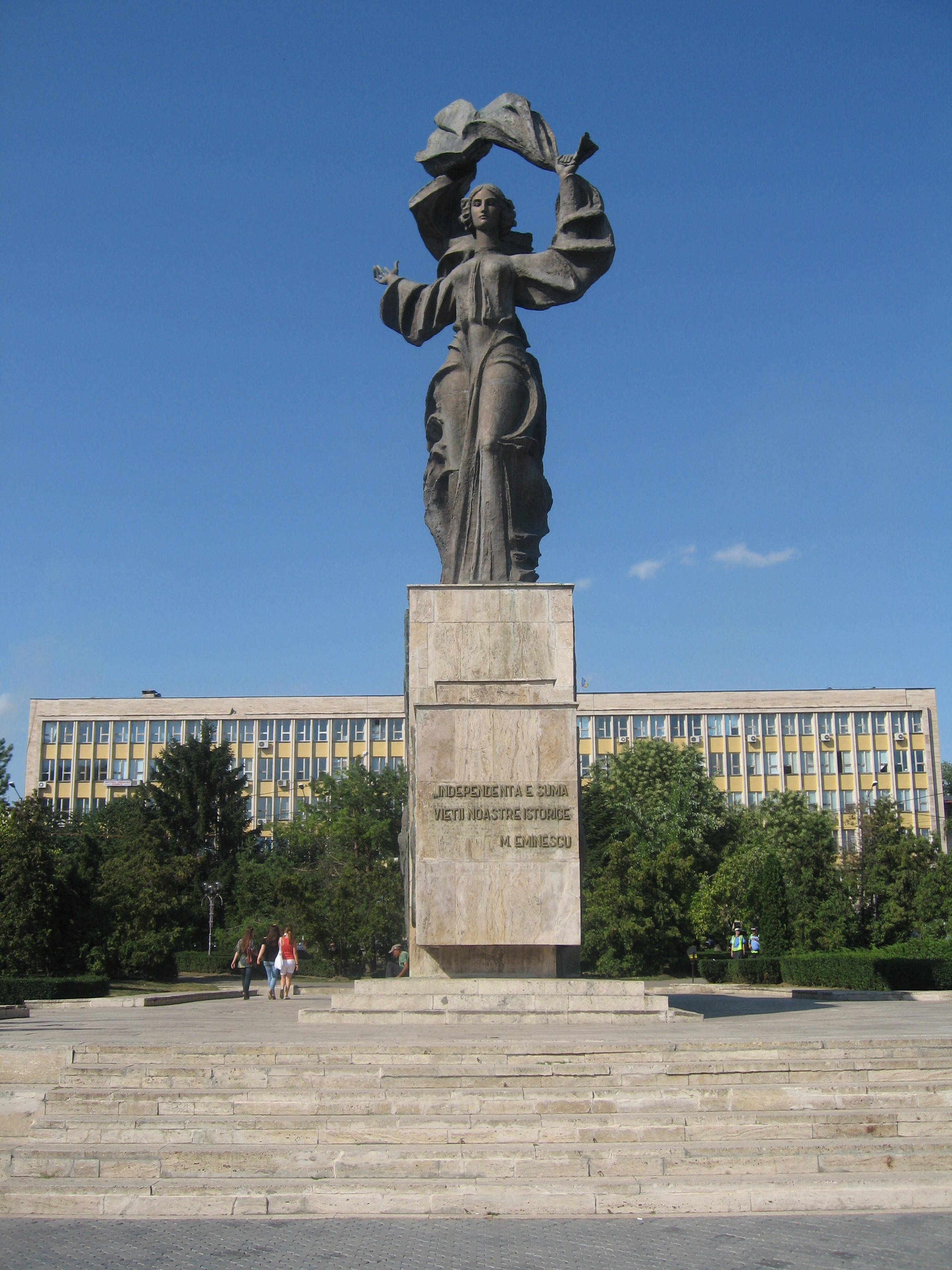 Statuia Independenţei din Iaşi